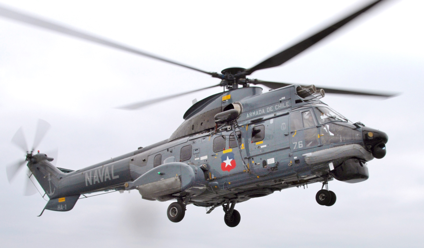 070603-N-4021H-054 PACIFIC OCEAN (June 3, 2007) - A Chilean Navy SH-32 Cougar (Eurocopter AS532SC Cougar) helicopter prepares to land on the flight deck of USS Mitscher (DDG 57) while engaged in multinational flight operations during the Teamwork South phase of Partnership of the Americas (POA) 2007. POA is focusing on enhancing relationships with partner nations through a variety of exercises and events at sea and on shore throughout South America, Latin America, and the Caribbean. U.S. Navy photo By Mass Communication Specialist 3rd Class Damien Horvath (RELEASED)